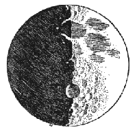 Sidereus Nuncius, Galileo Galilei